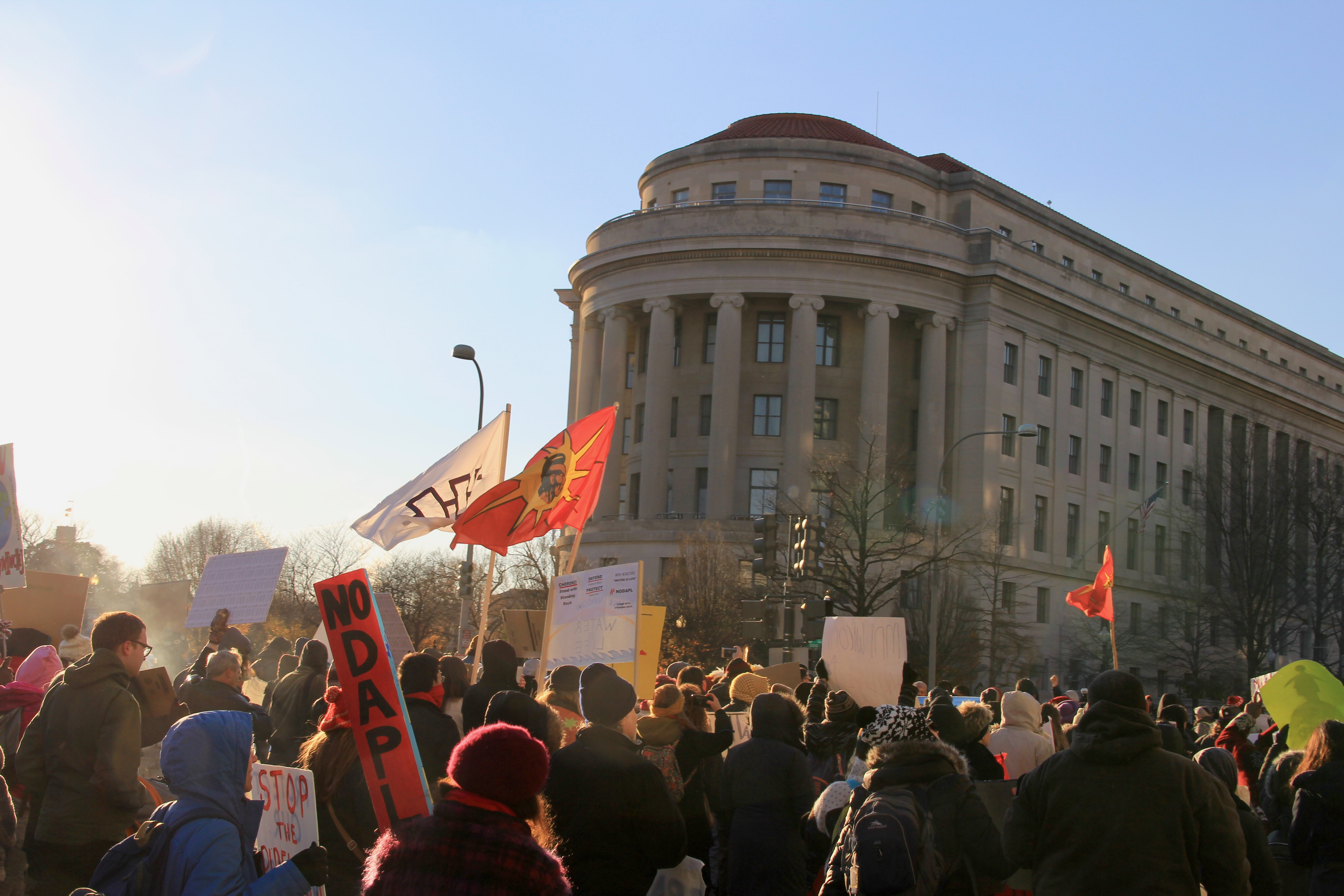 Beyond NoDAPL March on Washington, DC.